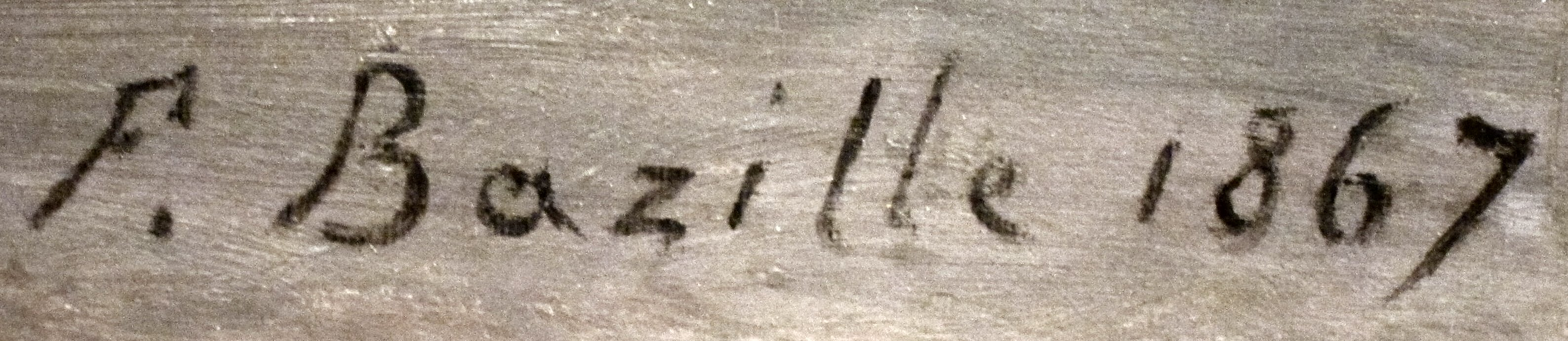 Signature of Frédéric Bazille, 1867